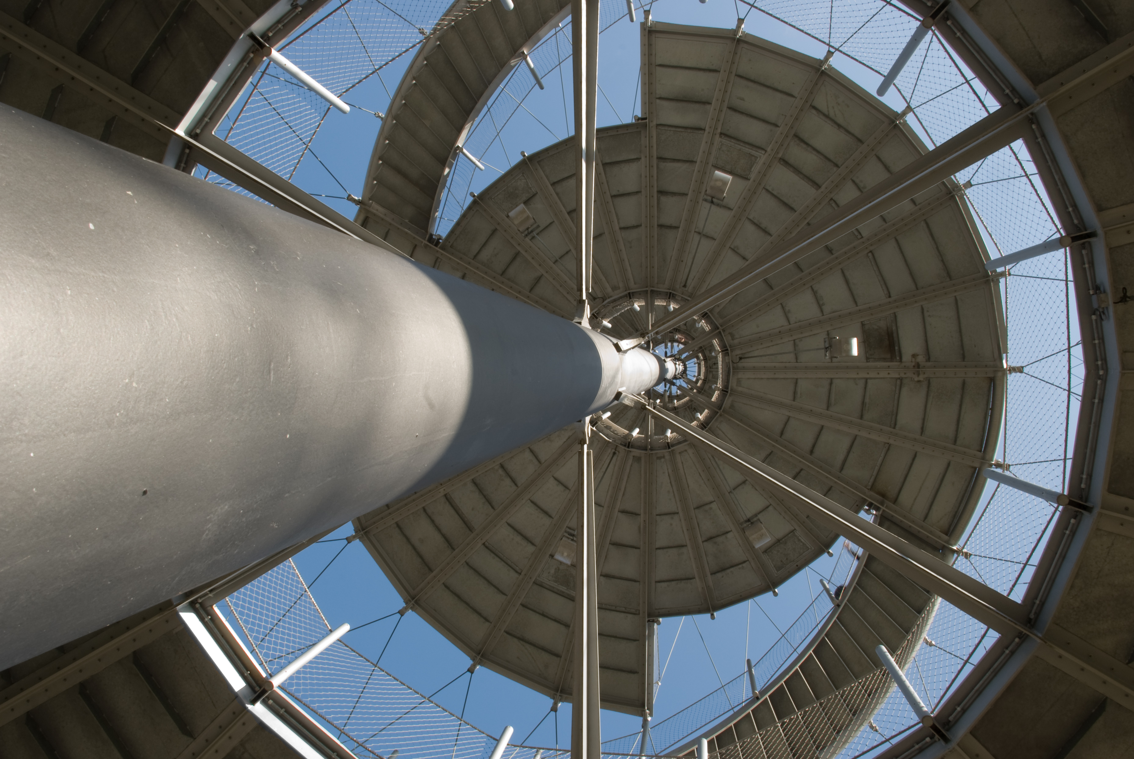 Killesberg Tower Stuttgart, Germany. Upward view along the central pole